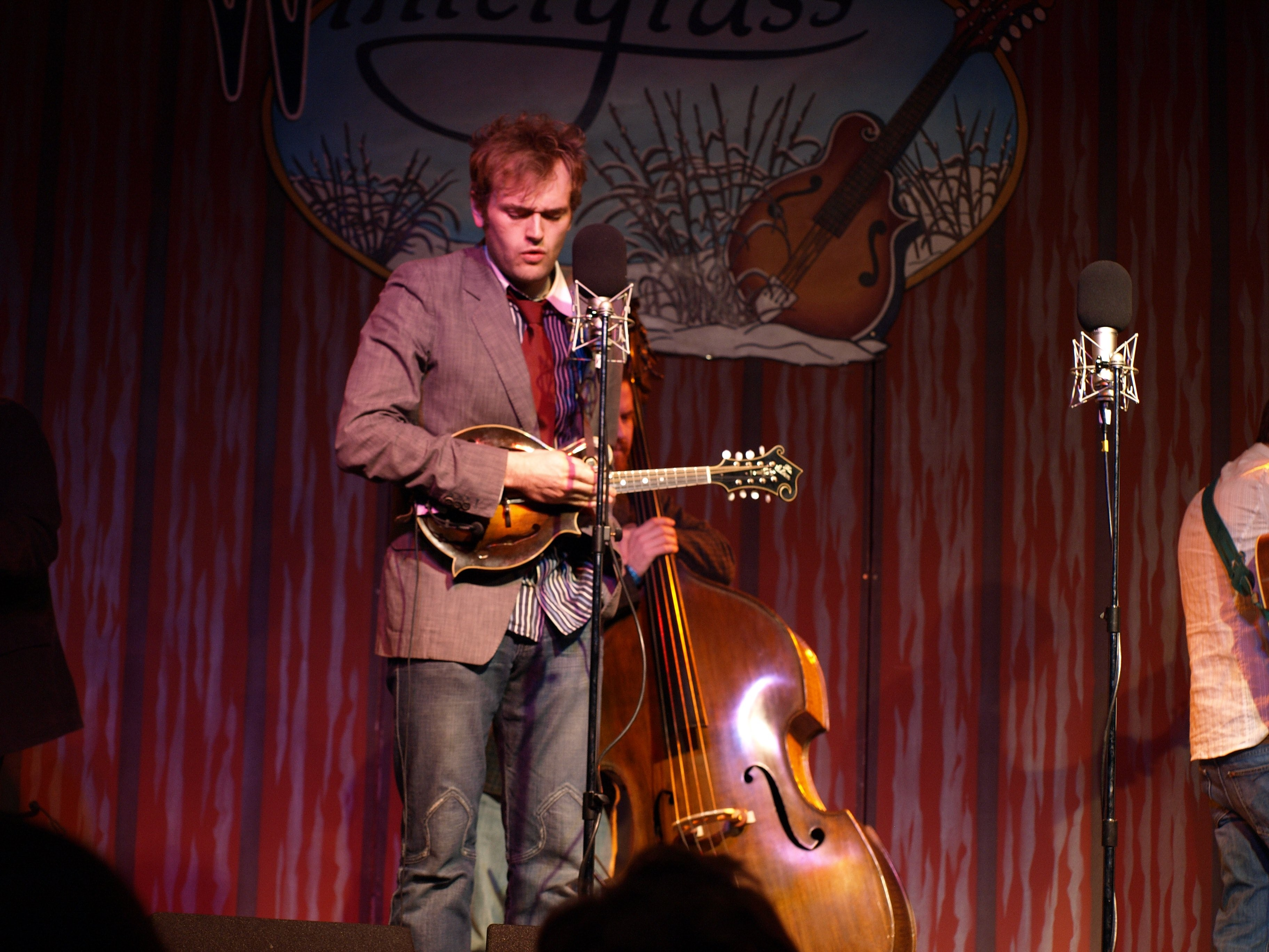 Chris Thile and Punch Brothers at Wintergrass, Bellevue, Washington, March 11, 2008